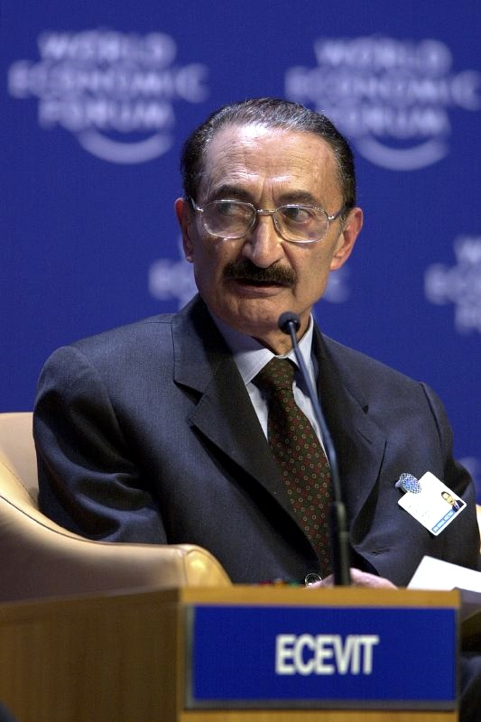 four-time Prime Minister of Turkey Bülent Ecevit